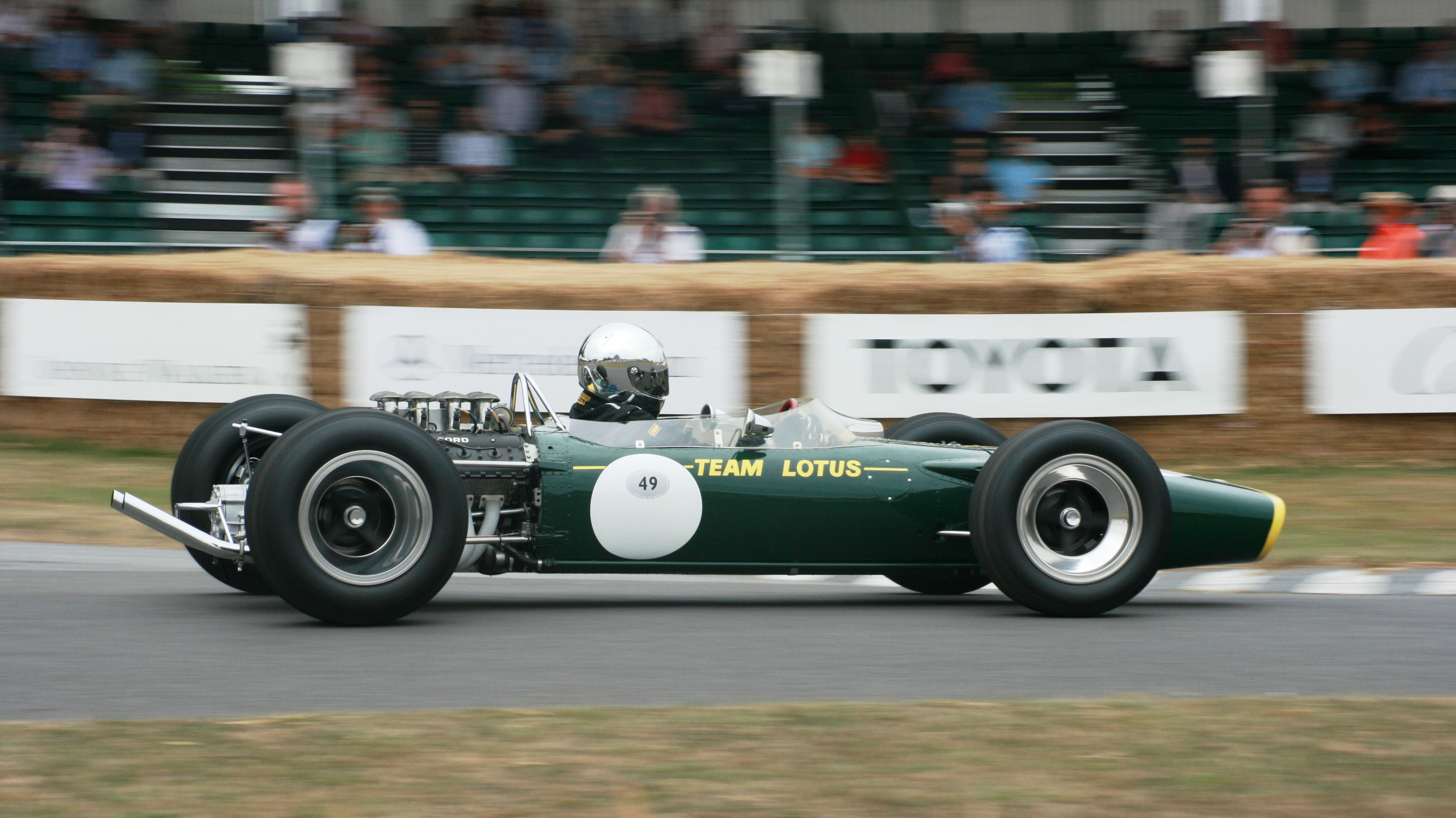 Lotus Cosworth 49